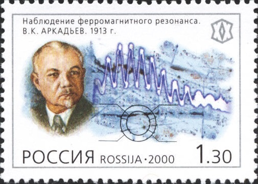 V. Arkadev